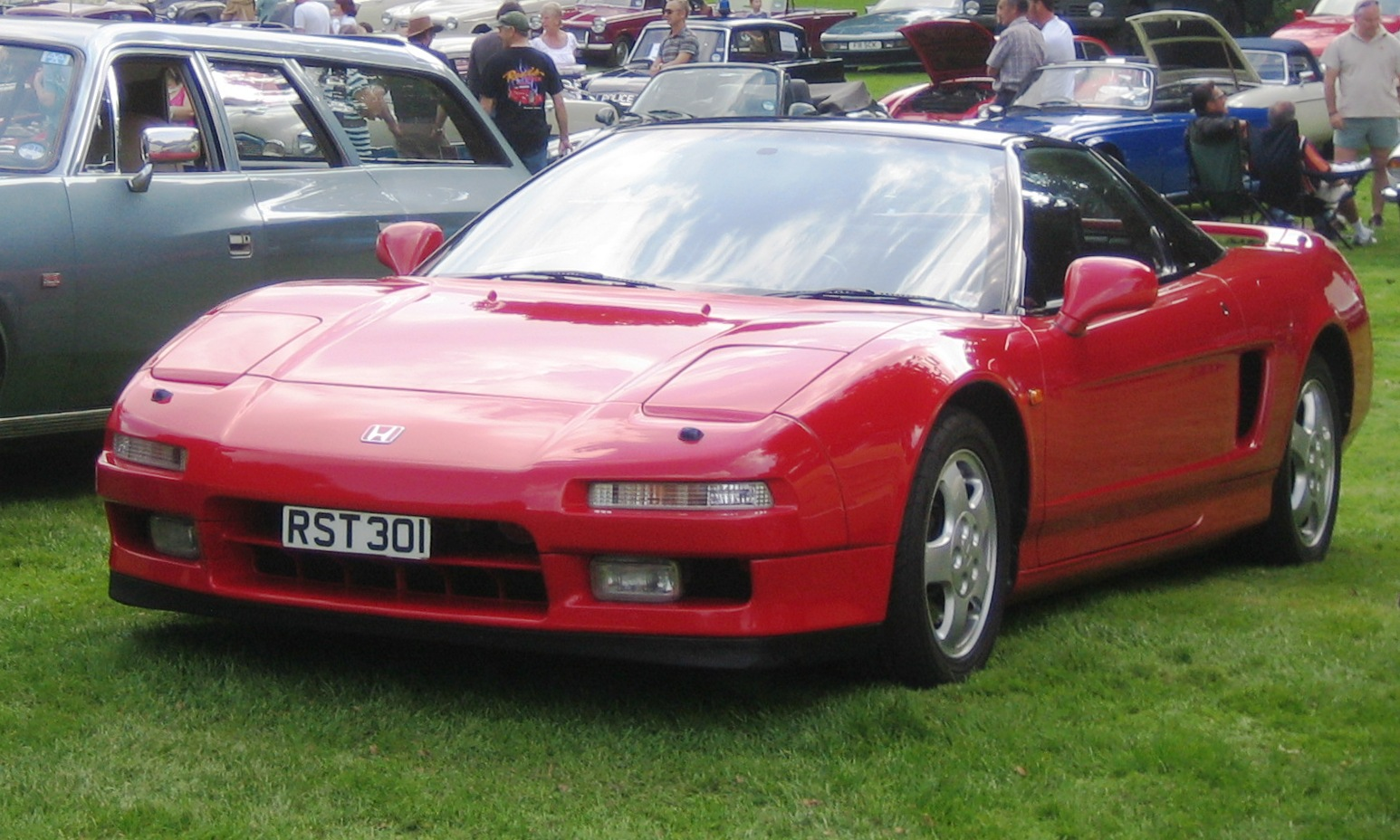 Honda NSX in Essex, England